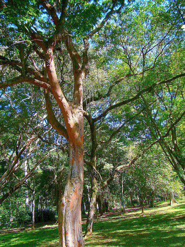 brazilwood tree at Rio de Janriro Botanic garden